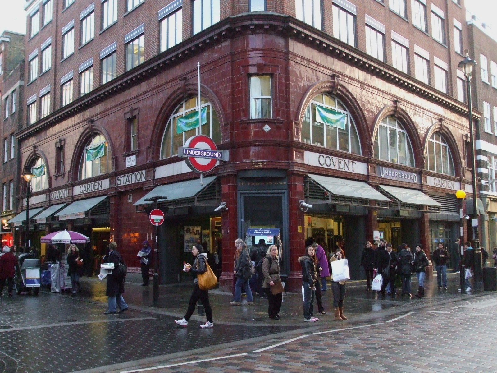 Covent Garden tube station, with entrance to the right, exit to the left